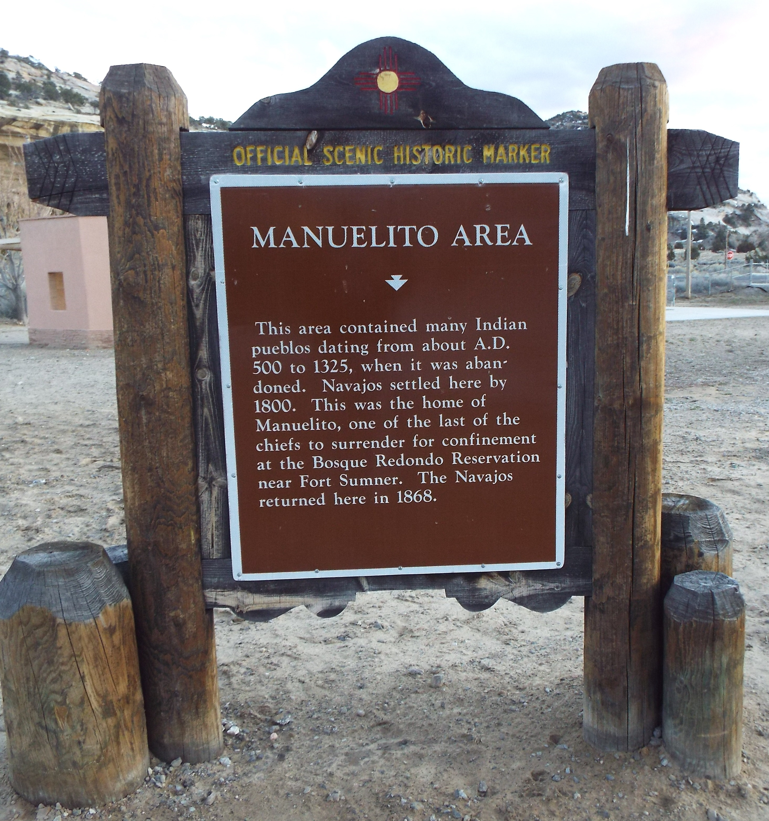 Historic Manuelito Area Marker in New Mexico.